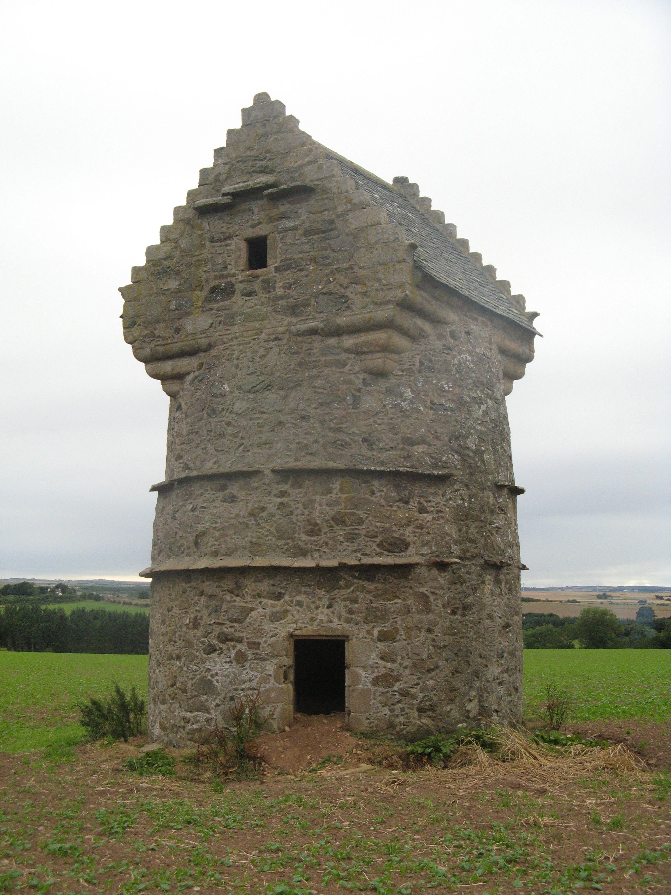 Auchmacoy Dovecot, category A listed,circular rubble building, dated 1638